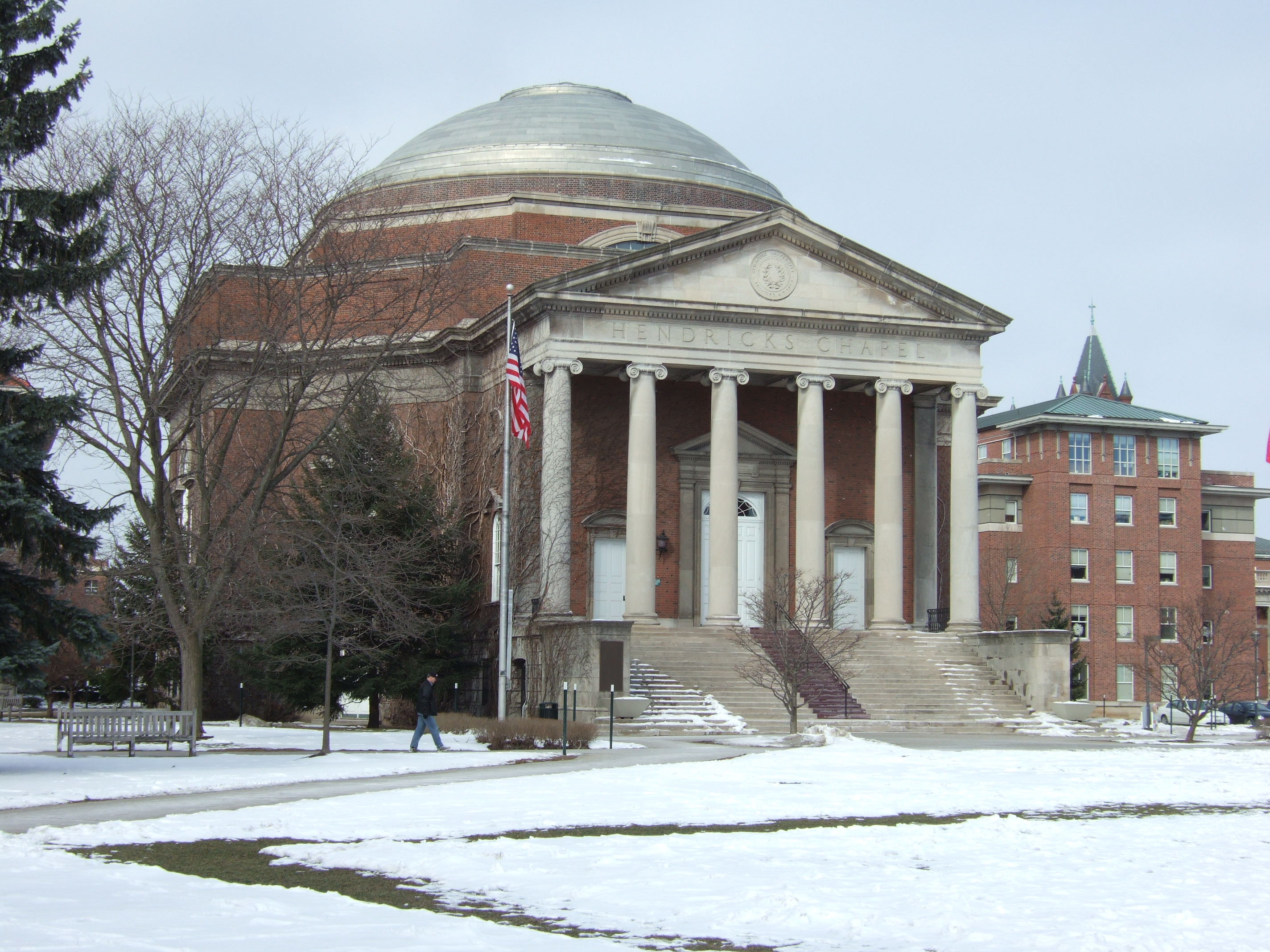 Hendrick Chapel 03/07/06 taken by Kisstory